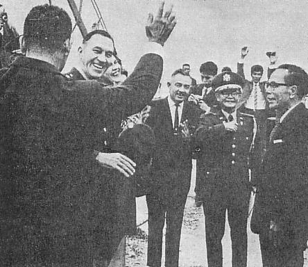 Ryukyuan people shouted "banzai" in HICOM Unger's face